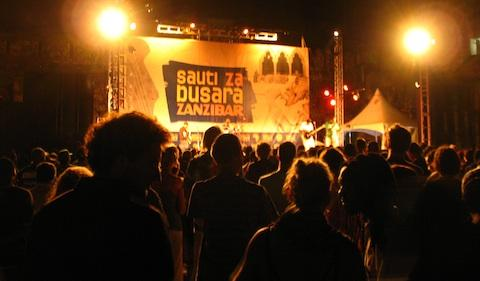 Festival goers crowd inside Stone Town's Old Fort at Sauti za Busara music festival, Stone Town, Zanzibar, February 9, 2012.